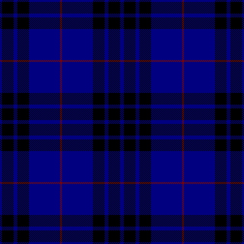 MacKay tartan, as published in the Vestiarium Scoticum. Modern thread count: B8 Bk24 B8 Bk24 B64 R4.